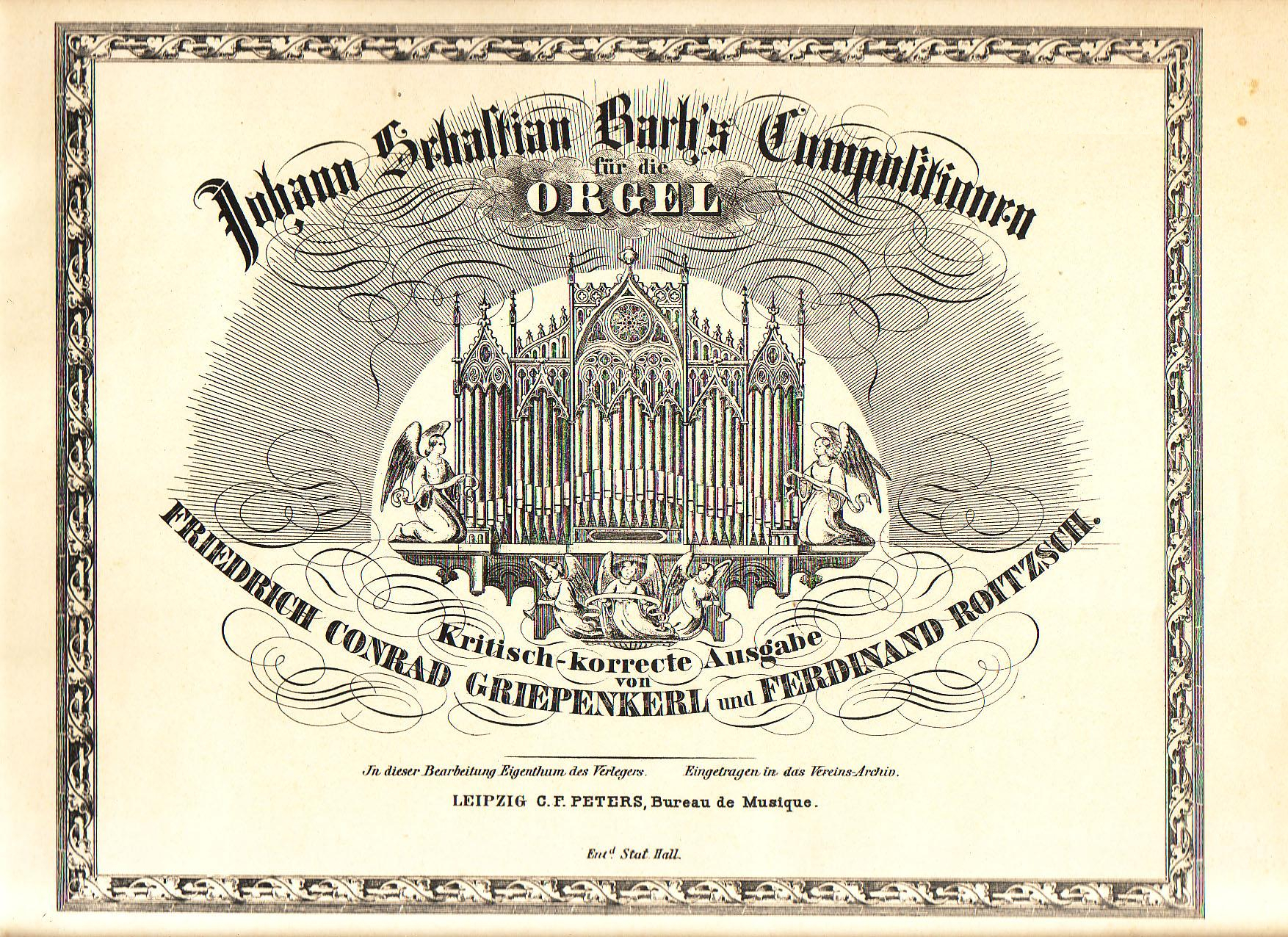 Cover for the nine volumes of organ works of Johann Sebastian Bach, published by C.F. Peters and edited by Griepenkerl and Roitzsch